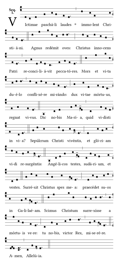 Victimae paschali laudes